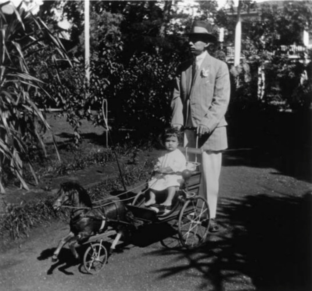 John Owen Dominis (1912–1933) and John Aimoku Dominis (1883–1917) outside Washington Place, Honolulu, Hawai‘i, 1913. Bishop Museum.